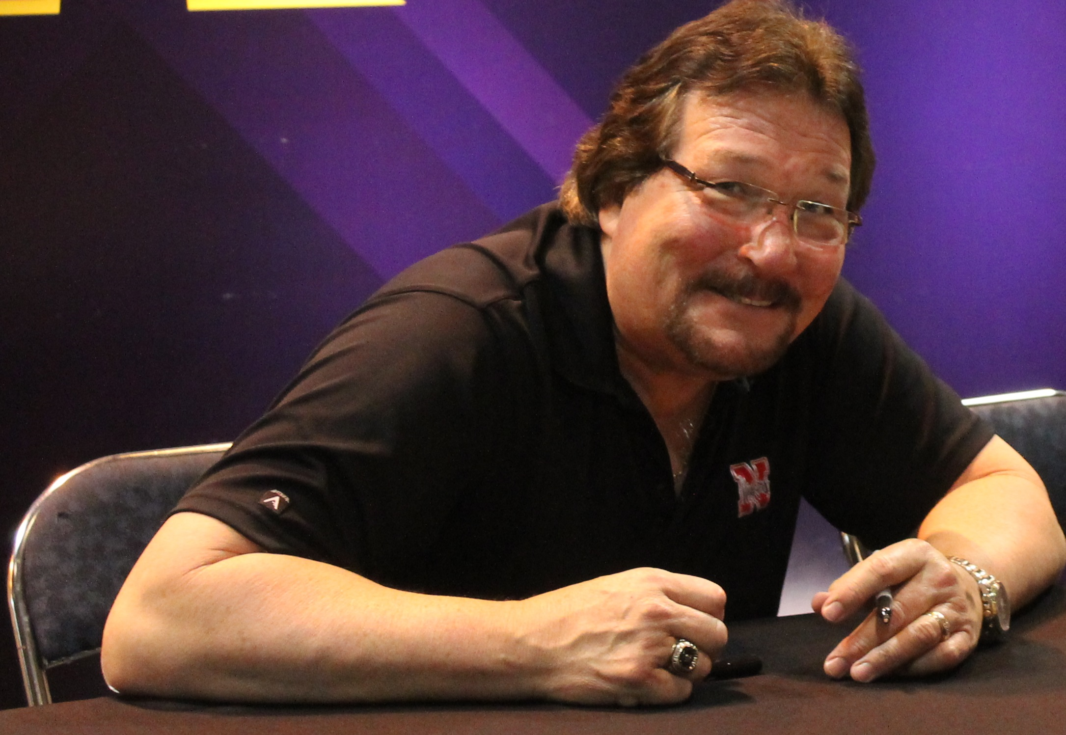 Professional Wrestler Ted Dibiase in April 2014